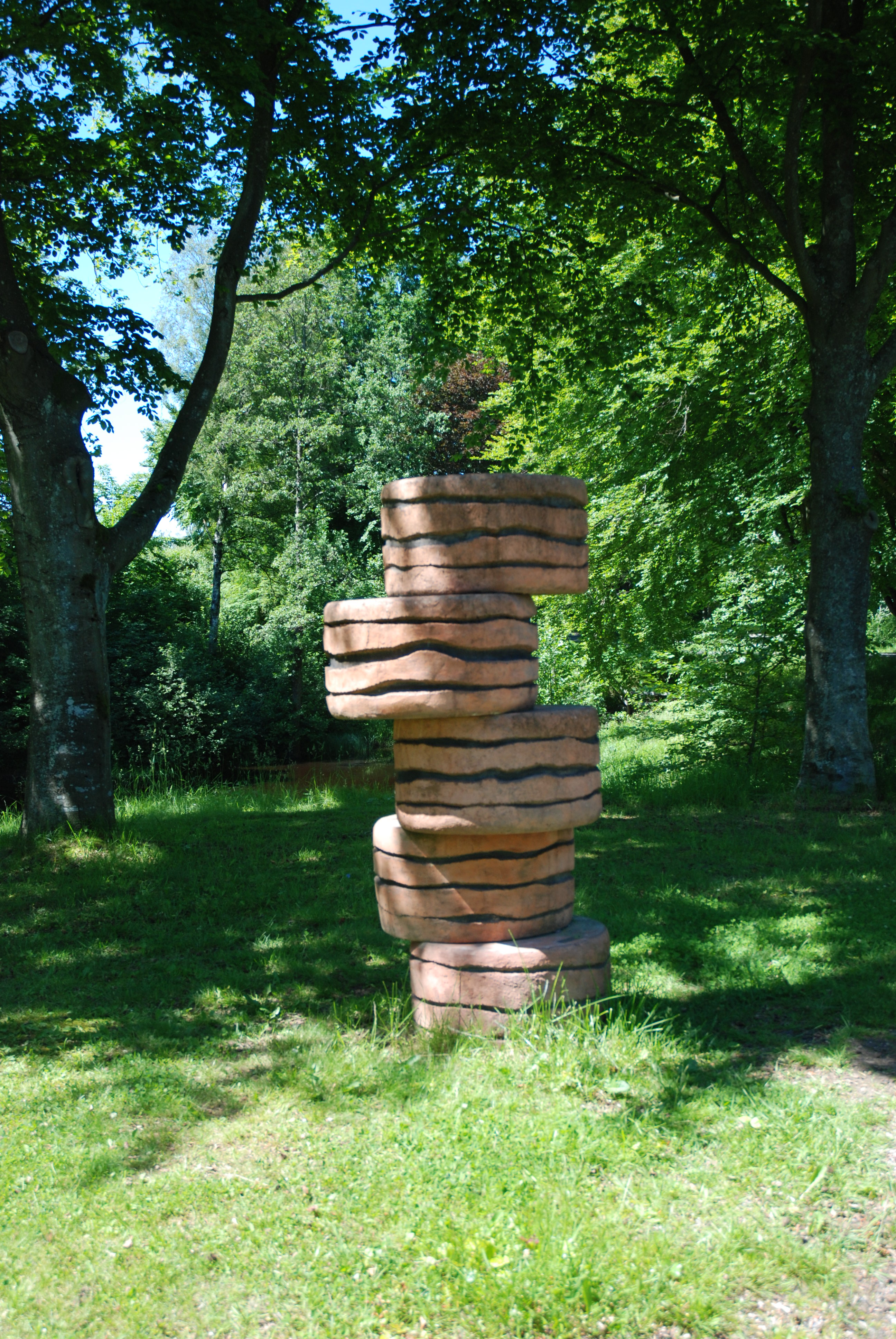 Minako Masui´s Betongande (Concrete soul), Åpromenaden, Ljungby, Sweden